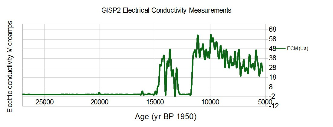 Gisp2 greenland Ice Core electrical conductivity measurements data visualization with OpenOffice. Warm stages are quite different than gflacial stages.